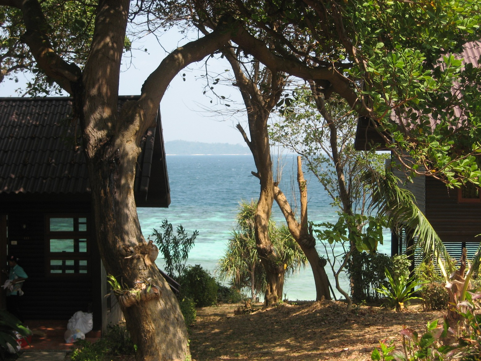 Tourist resort on Ko Phi Phi Don, Thailand. February, 2006.